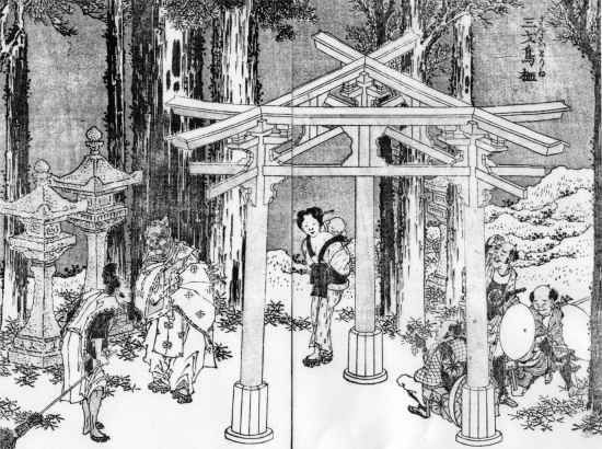 A frame from a volume 11 of the Hokusai manga (北斎漫画), by Katsushika Hokusai